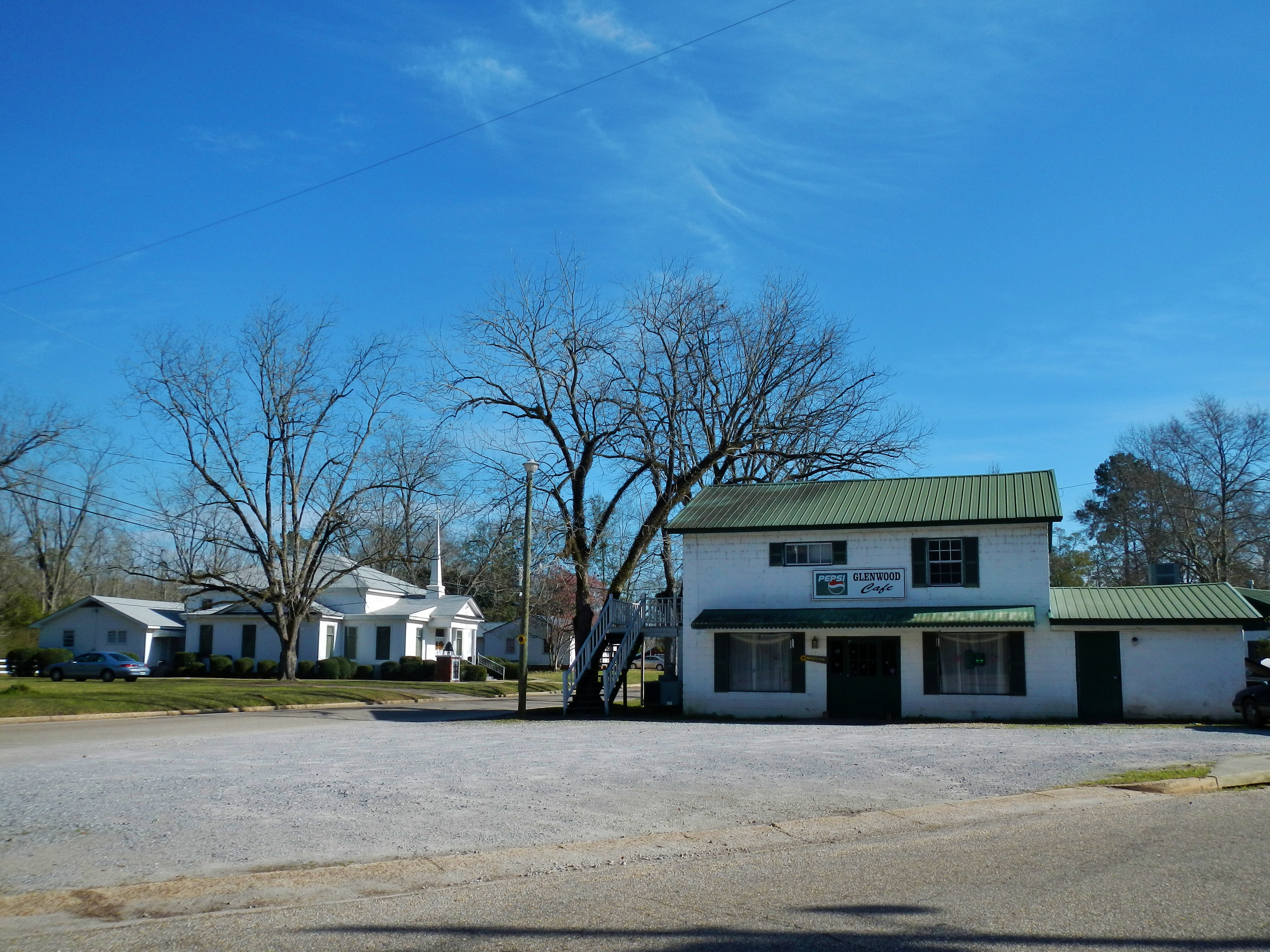 This is a photo of Glenwood, Alabama.